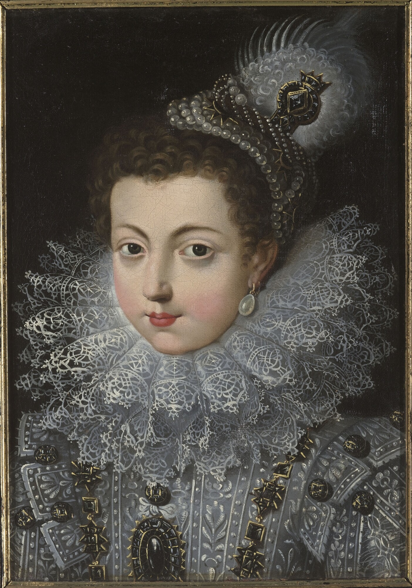 Portrait of Elisabeth of France (1602–1644)